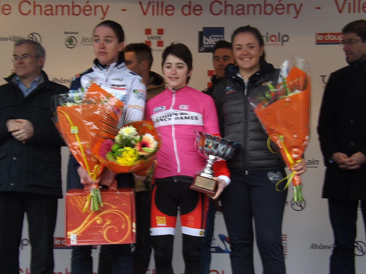 Sight of female cyclists Manon Souyris (first, at the center), Amélie Rivat (second, on the left) and Soraya Paladin (third, on the right), on the 2015 Grand prix de Chambéry (first race of the French Cup) podium, in Savoie, France.